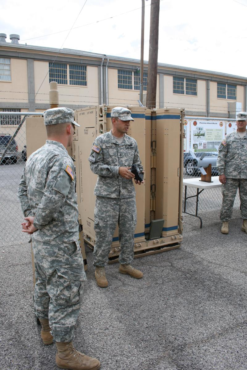 Preliminary Limited User Test (P-LUT) Spin Out Image - nlos-ls